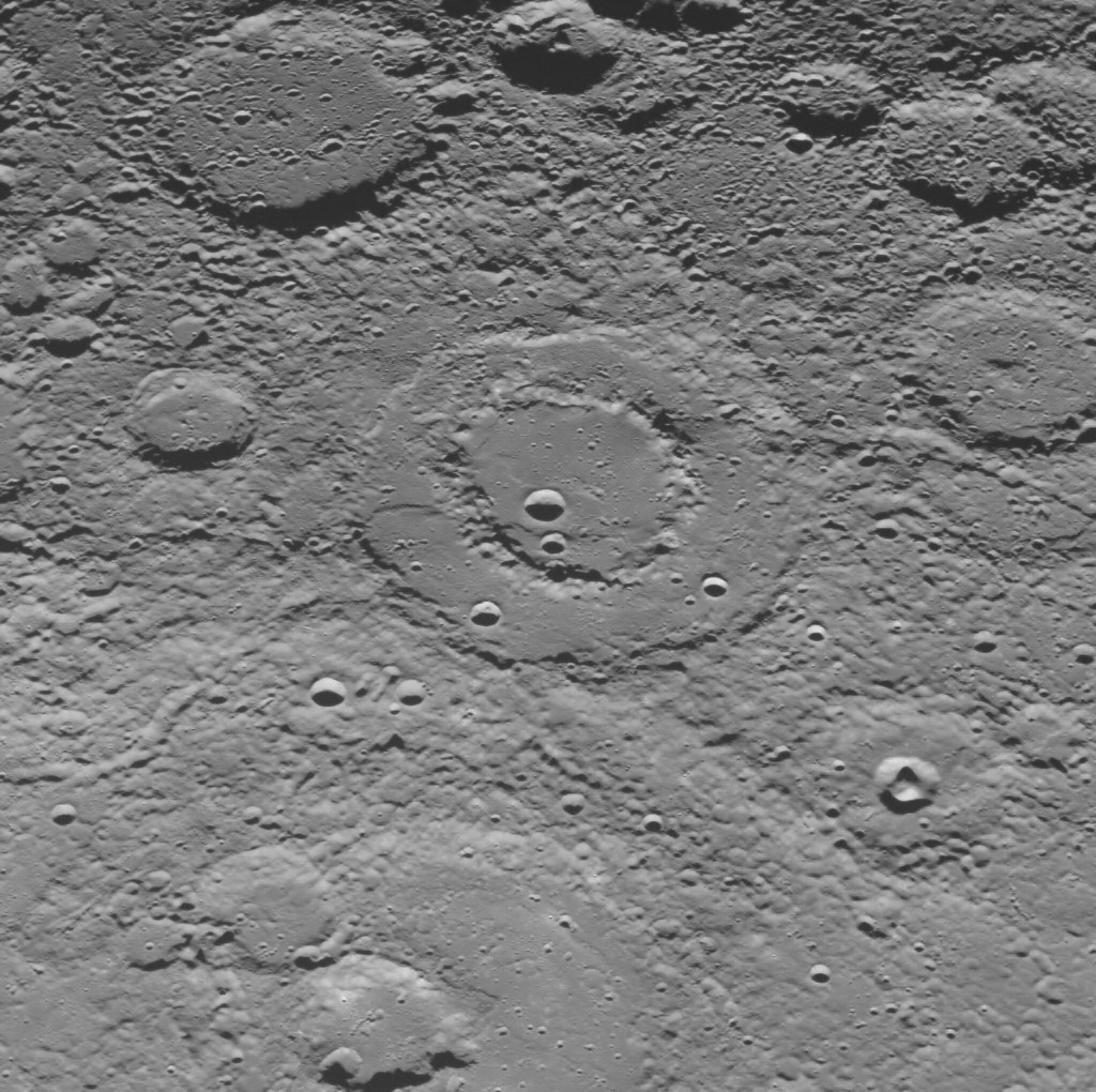 Oblique view of Mark Twain crater (center) on Mercury. MESSENGER Wide Angle Camera. North is to right. Emission Angle: 38.8 Incidence Angle: 79.8 Latitude: -11.2 Longitude: 222.4 Phase Angle: 41.0